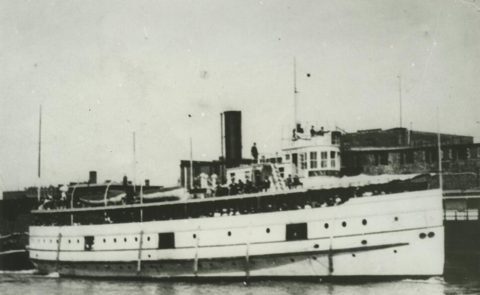 The steamer America circa 1900